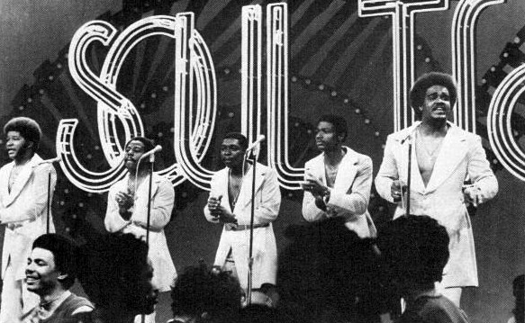 Photo of the music group The Stylistics on the television program Soul Train in 1974.